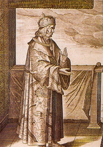 Sámuel Aba, King of Hungary